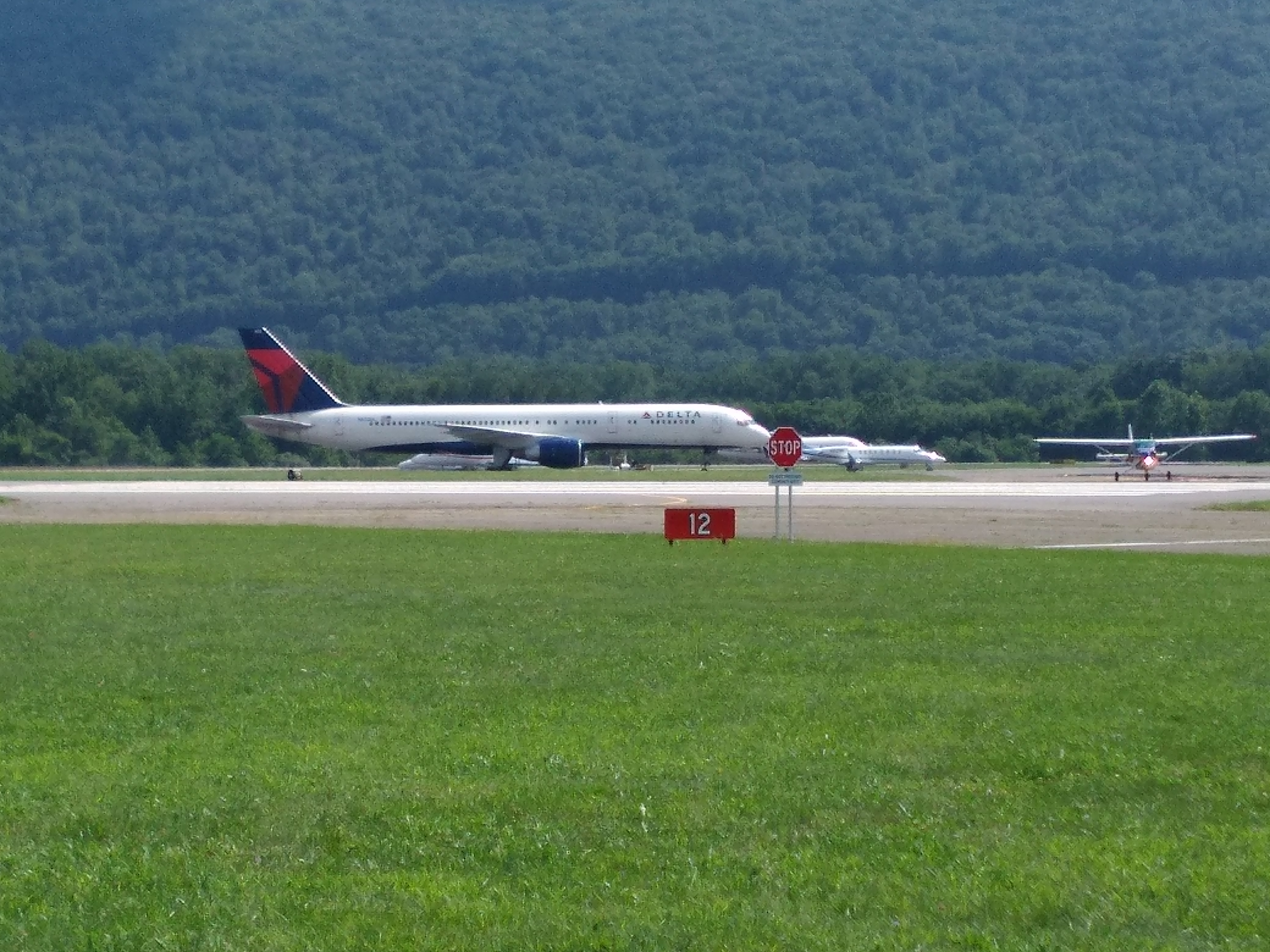 Delta Air Lines Boeing 757-200 sitting at Williamsport Regional Airport after a charter flight that brought the St. Louis Cardinals to Williamsport.